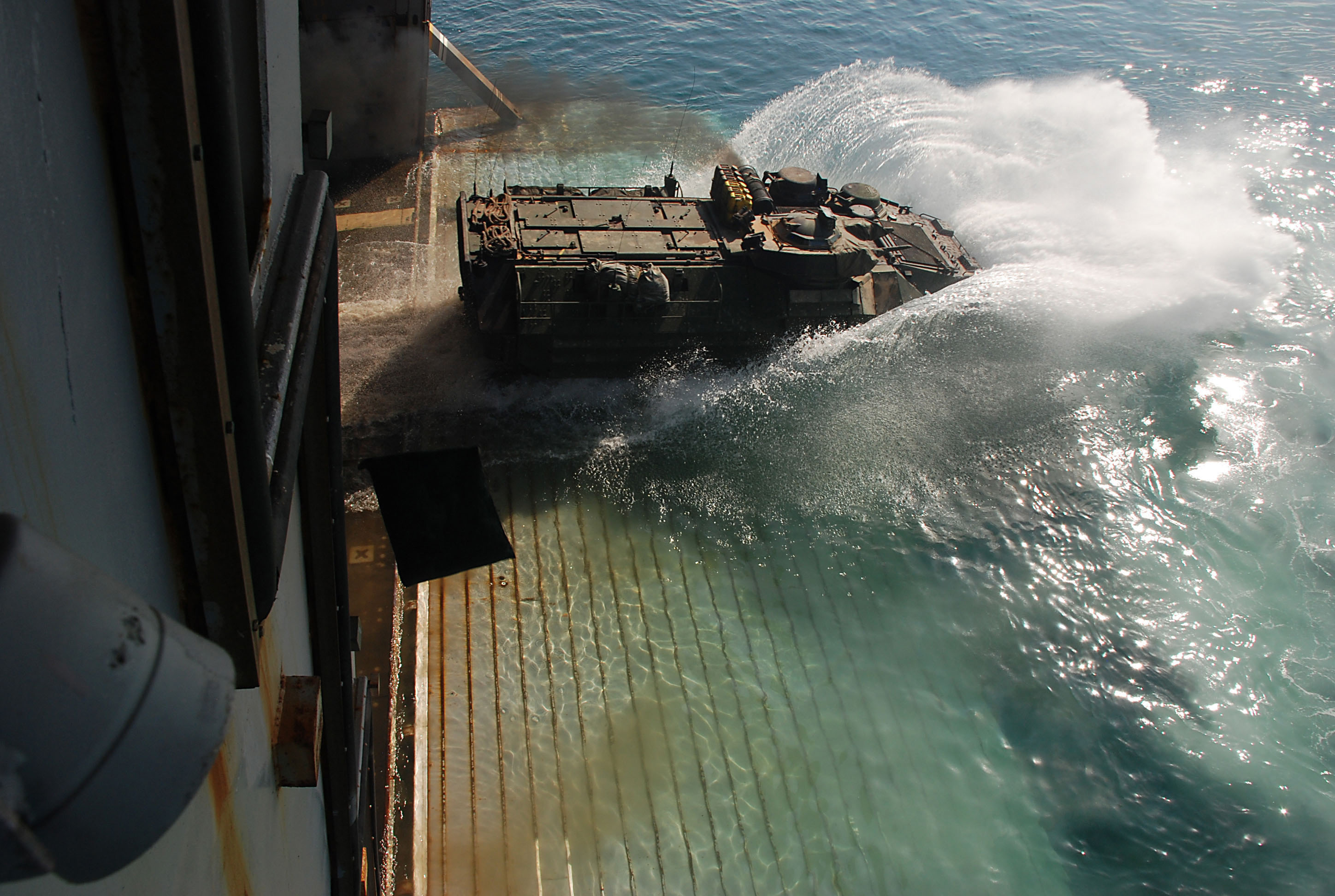 A U.S. Marine Corp amphibious assault vehicle splashes into the sea as it departs the amphibious transport dock ship USS Green Bay (LPD 20) on Dec. 19, 2012. Green Bay as part of the Peleliu Amphibious Ready Group and with the embarked 15th Marine Expeditionary Unit are deployed to the 5th Fleet area of responsibility to conduct maritime security operations and theater security cooperation efforts.